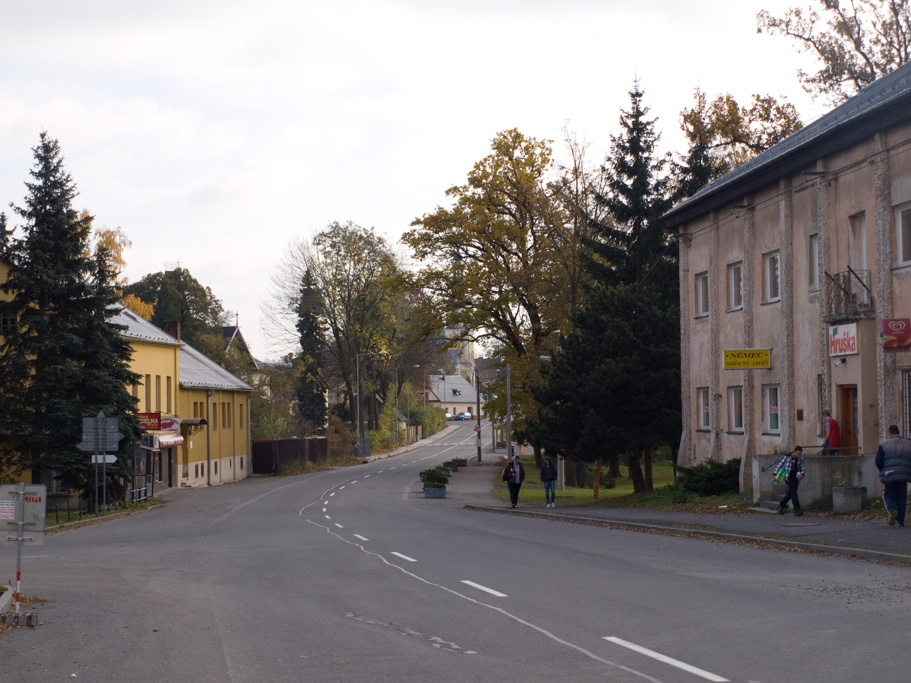 Village square, Světlá Hora, Bruntál District, Moravian-Silesian Region